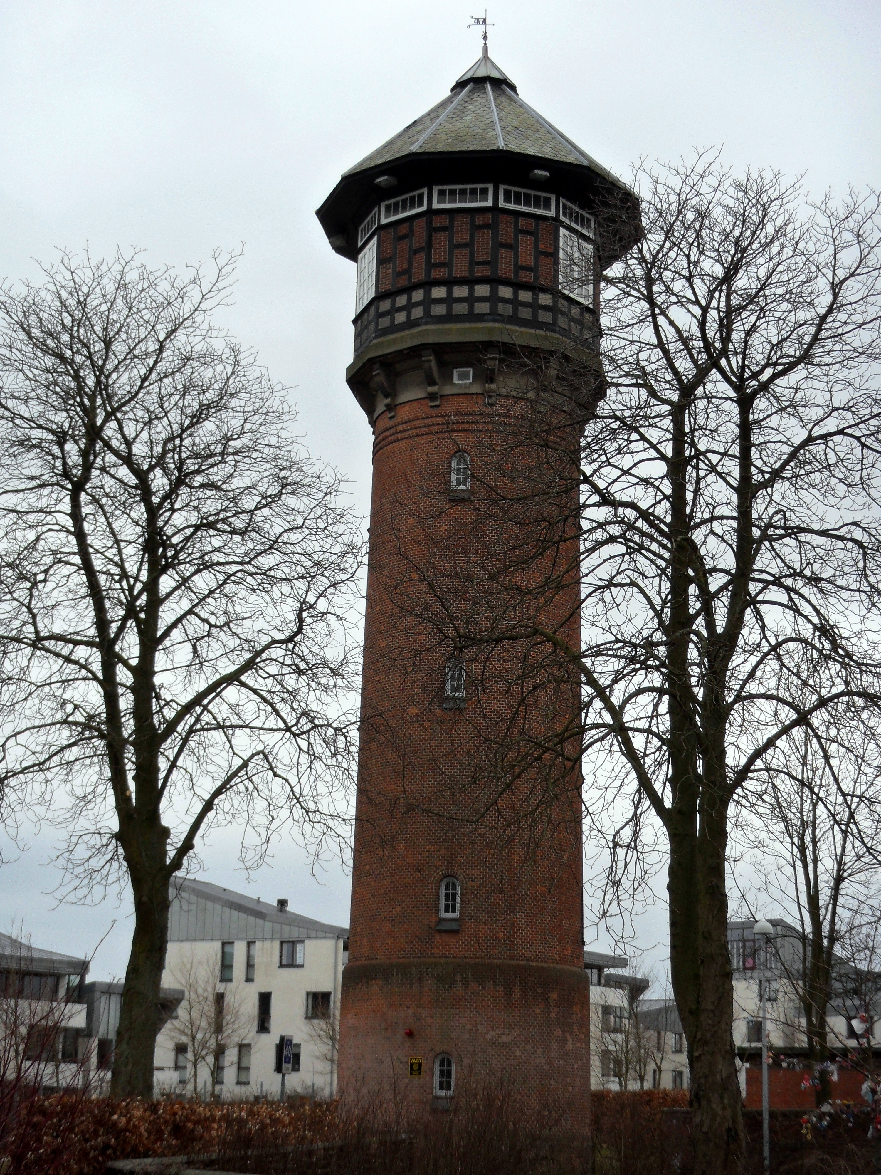 Picture of the watertower in Taastrup, Denmark; picture taken from the north.